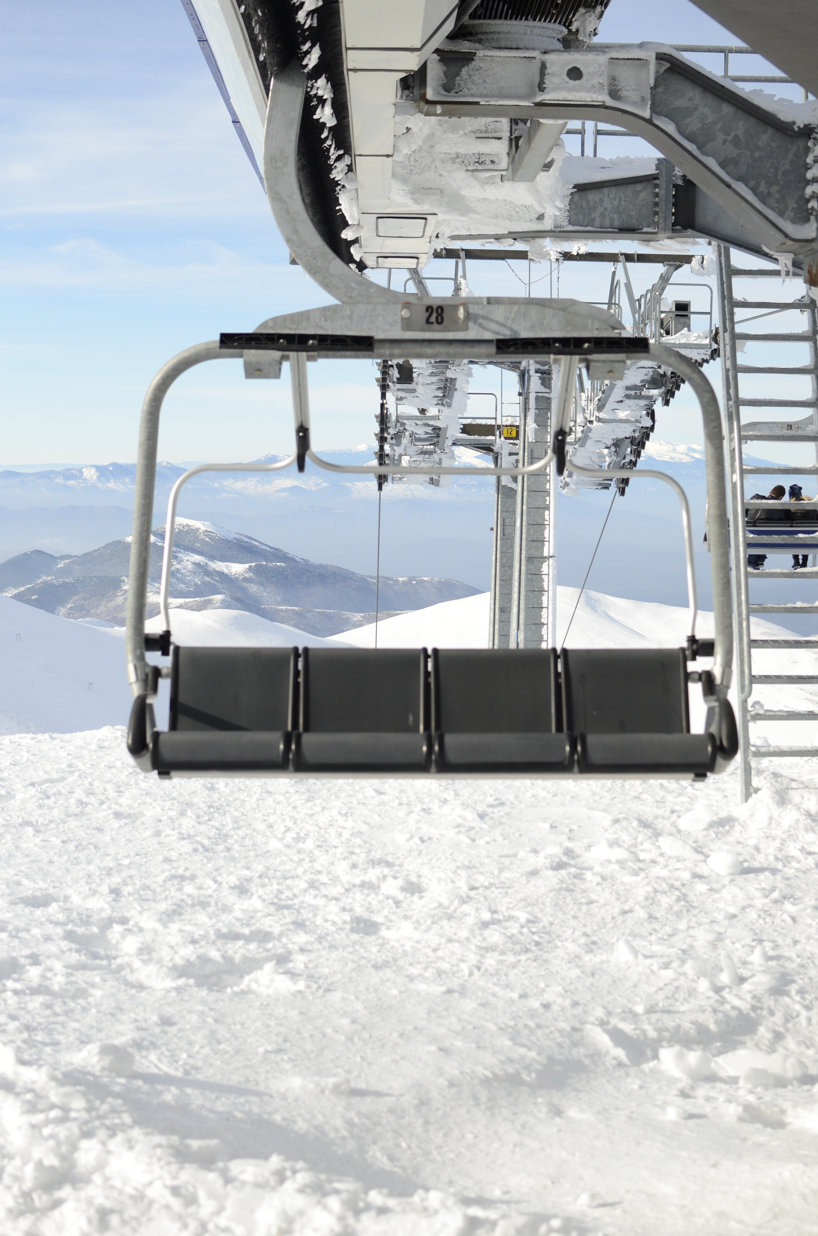 Lifts in Ski resort on Mountain Falakro, located in Drama, north Greece. Apart the ski track, the lifts end at a cafe-bar which is at 2111m altitude.